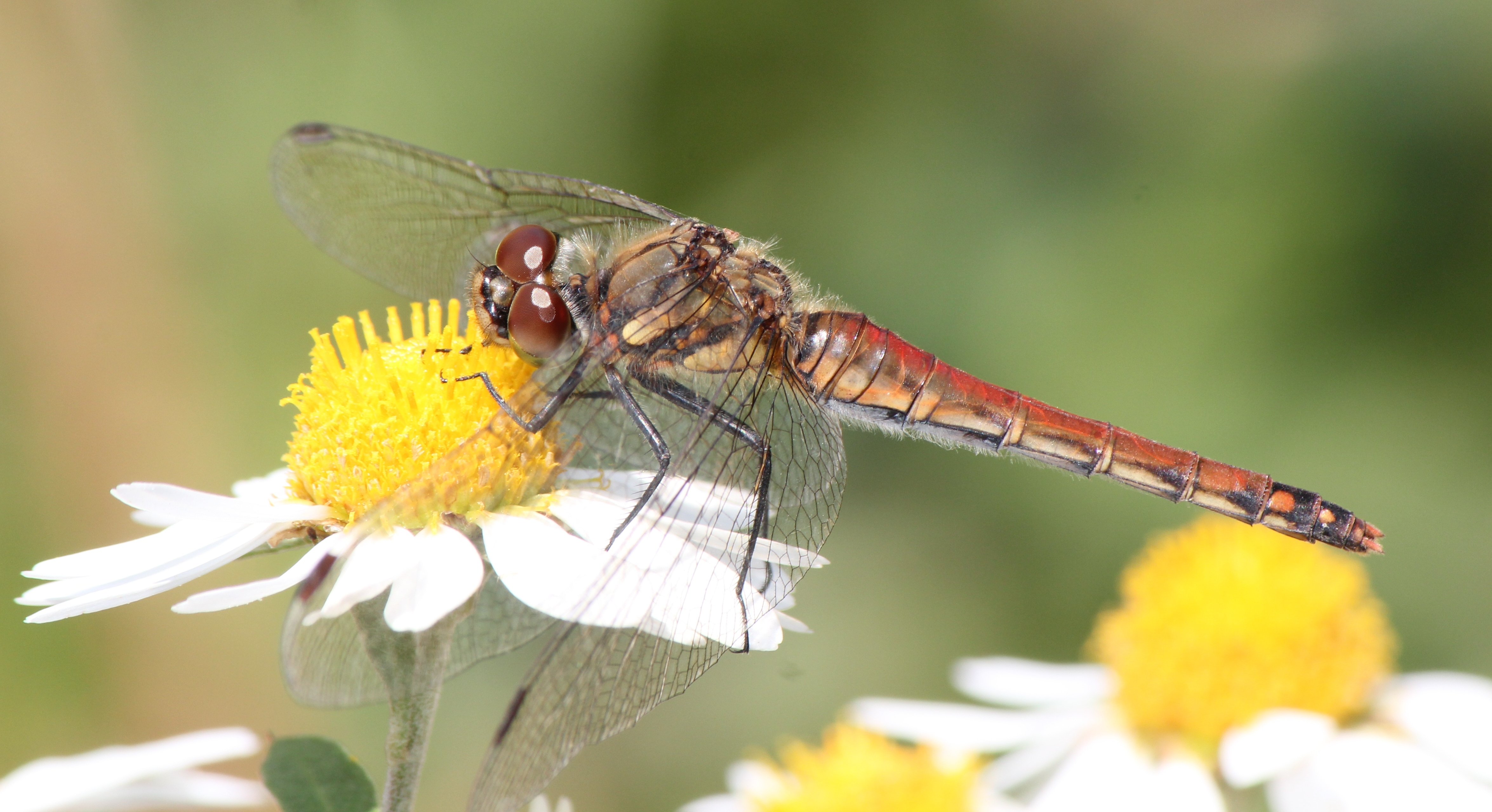 Sympetrum frequens (Autumn darter), female in Mount Ibuki, Japan.